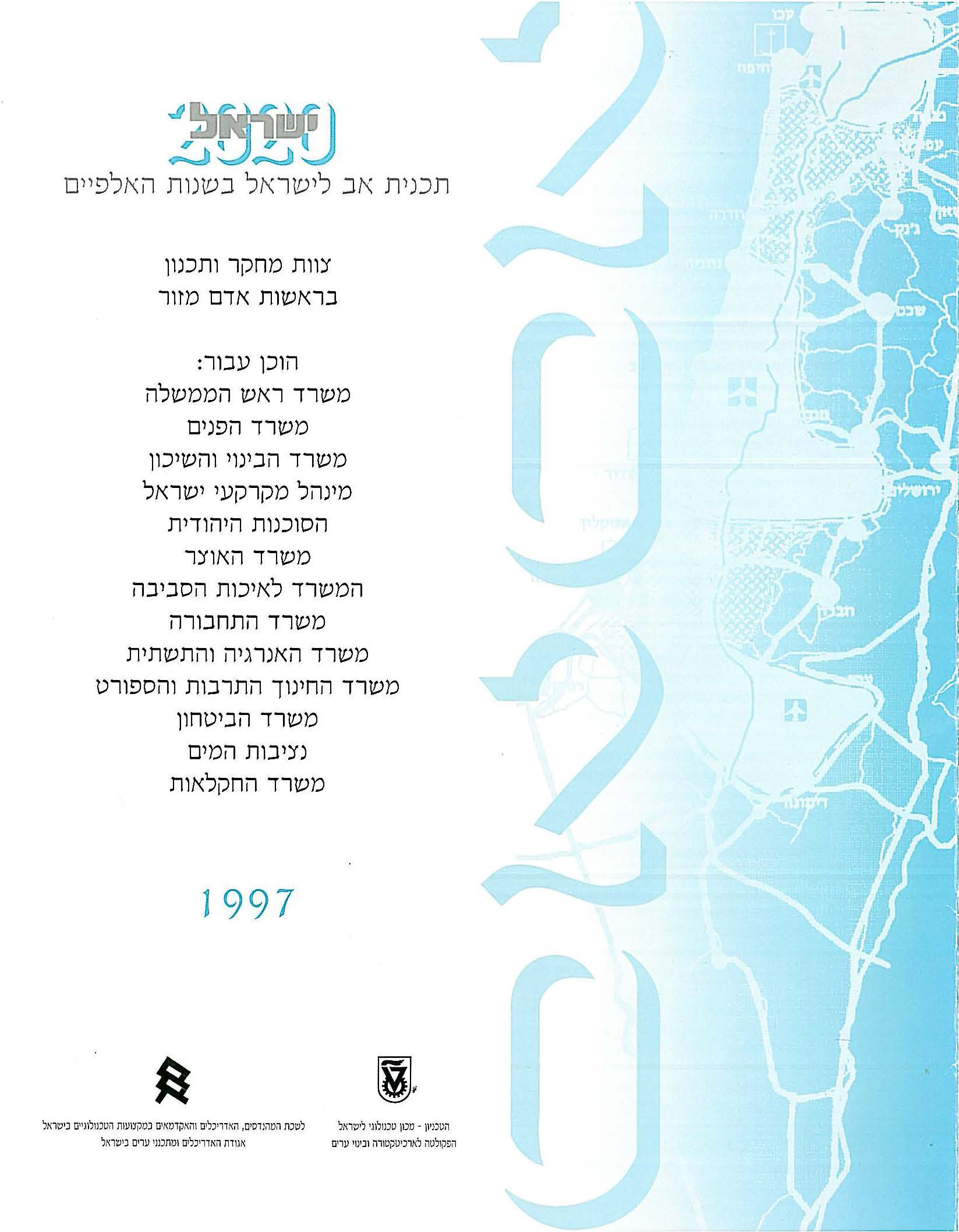 Israel 2020 - Cover Page